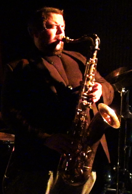 Frank Catalano playing in Brooklyn